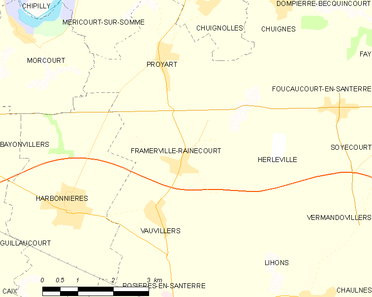 Map of French municipality Framerville-Rainecourt